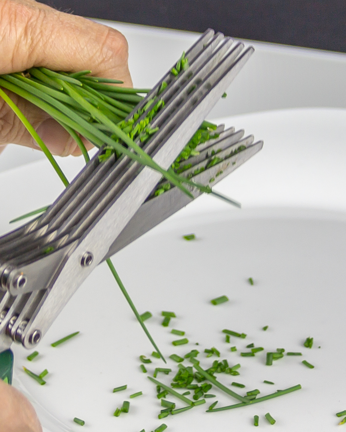 Kitchen scissor for herbs. Used here for chives